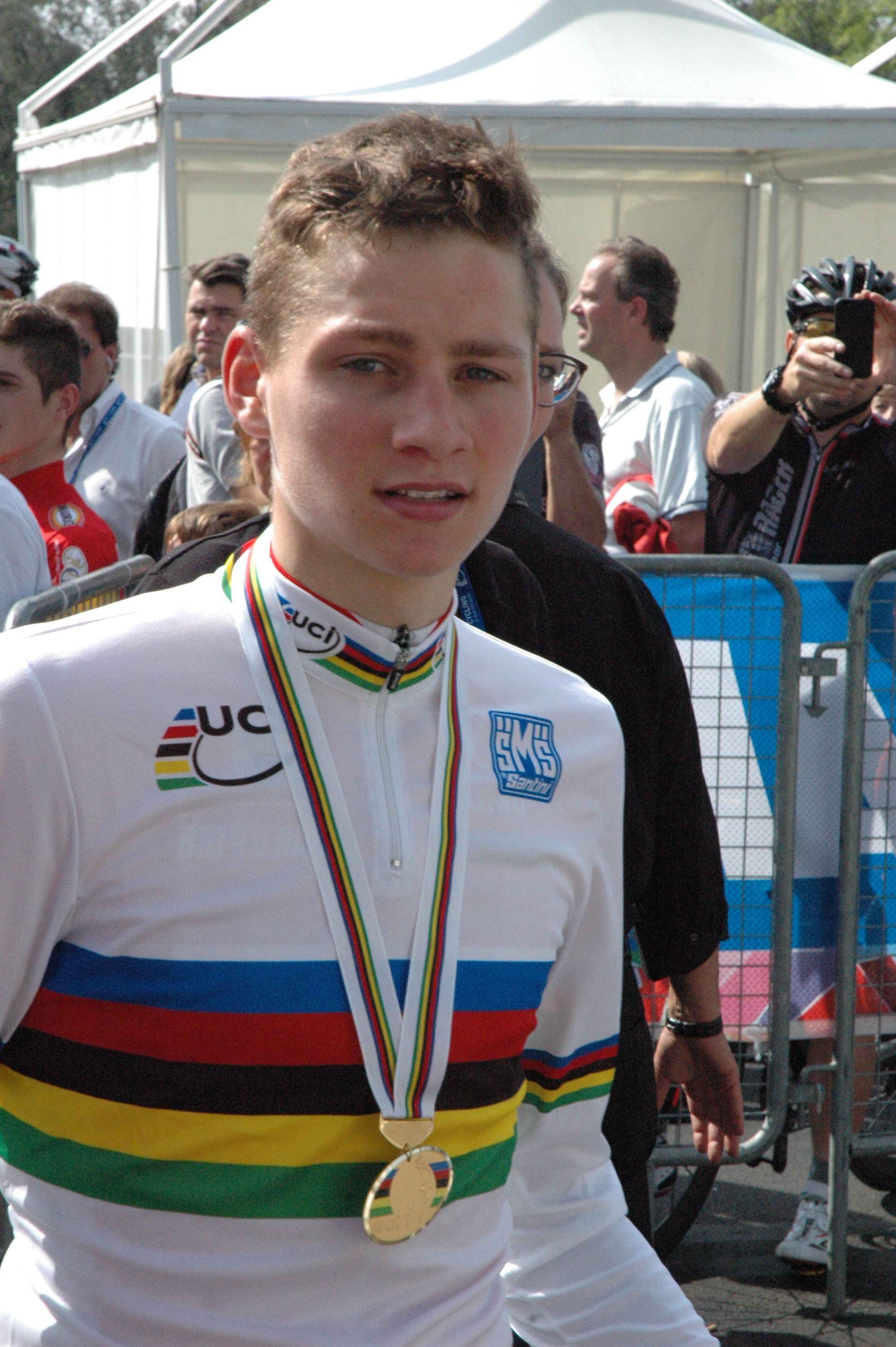 2013 UCI Road World Championships – Men's junior road race